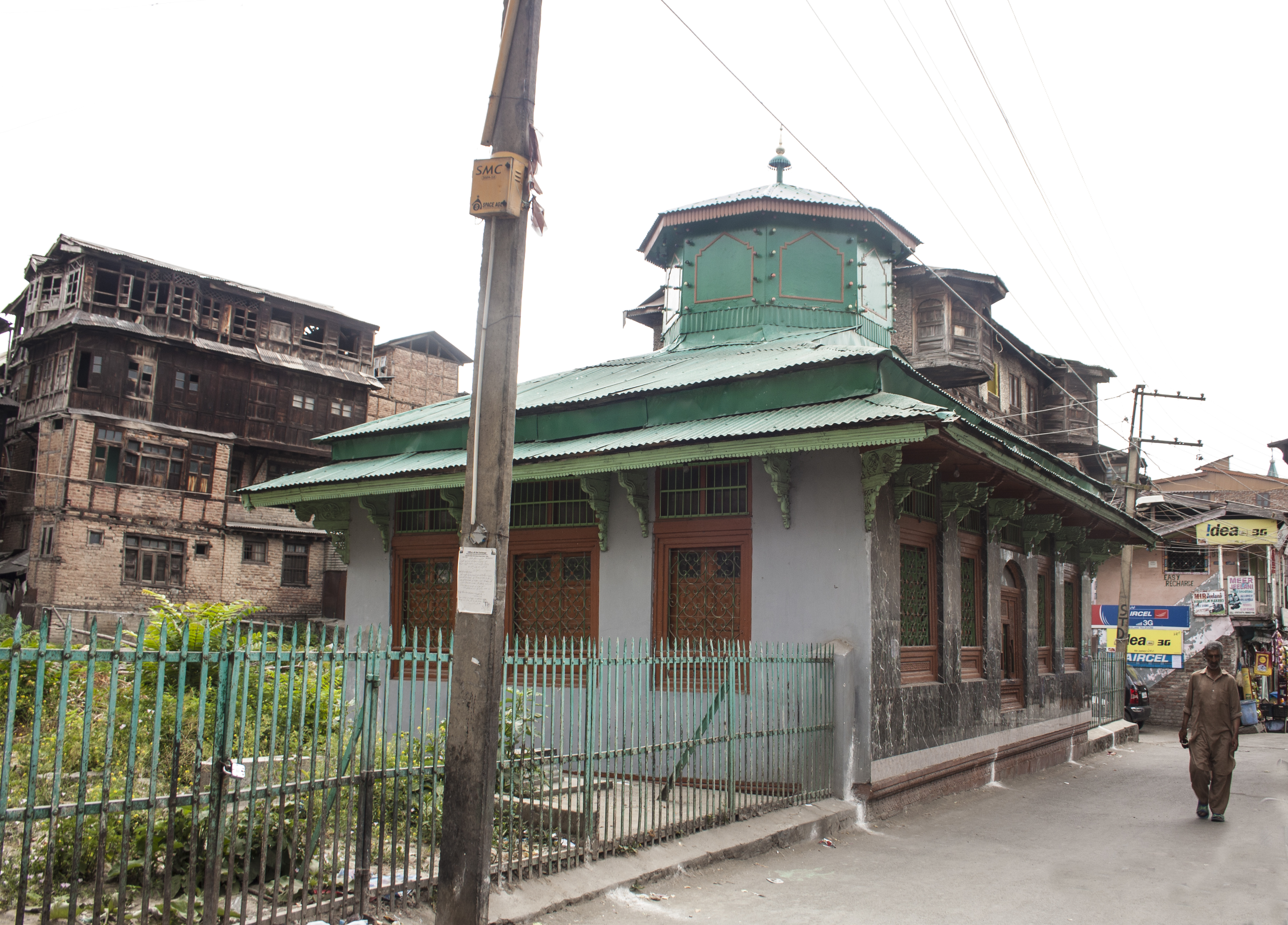 Roza Bal or Rauza Bal or Rauza Bol or Raza Bal, which means “Tomb of the Prophet”. There are two tombs inside the Roza Bal, one tomb is of Ziarati Hazrati Youza Asouph or Yuz Asaph (or Asaf) and another grave is of Syed Nasir-u-Din (Islamic saint, a descendant of Imam Moosa Ali Raza, said to be a great devotee of Jesus, who buried here in 1451). As per some ancient records, that indicate that the grave of Youza Asouph or Yuz Asaph (or Asaf) is to be as far back as 112 CE. The Hebrew name of Jesus was Yuza, in Arabic or in the Koran his name was Hazrat Isa or Isa and Issa in Tibetan. Farhang-Asafia, which explains how Jesus healed some leper and then became Asaf (purified or healed) and the word Yuz mean “Leader”. Yuz Asaph or Youza Asouph means “Leader of the Healed” which pointed to Jesus Christ. The grave of Yuz Asaph also points east to west, according to Jewish tradition but the Muslim tombs are always points on the north-south axis. Photography is strictly prohibited and the shrine is closed permanently.